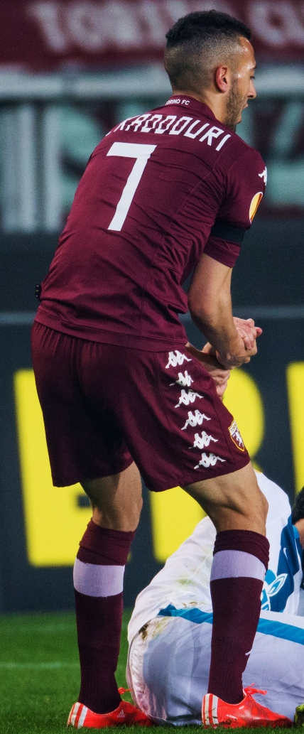 19.03.15. Италия, Турин, «Стадио Олимпико». Лига Европы УЕФА, 1/8 финала, «Торино» — «Зенит». Omar El Kaddouri